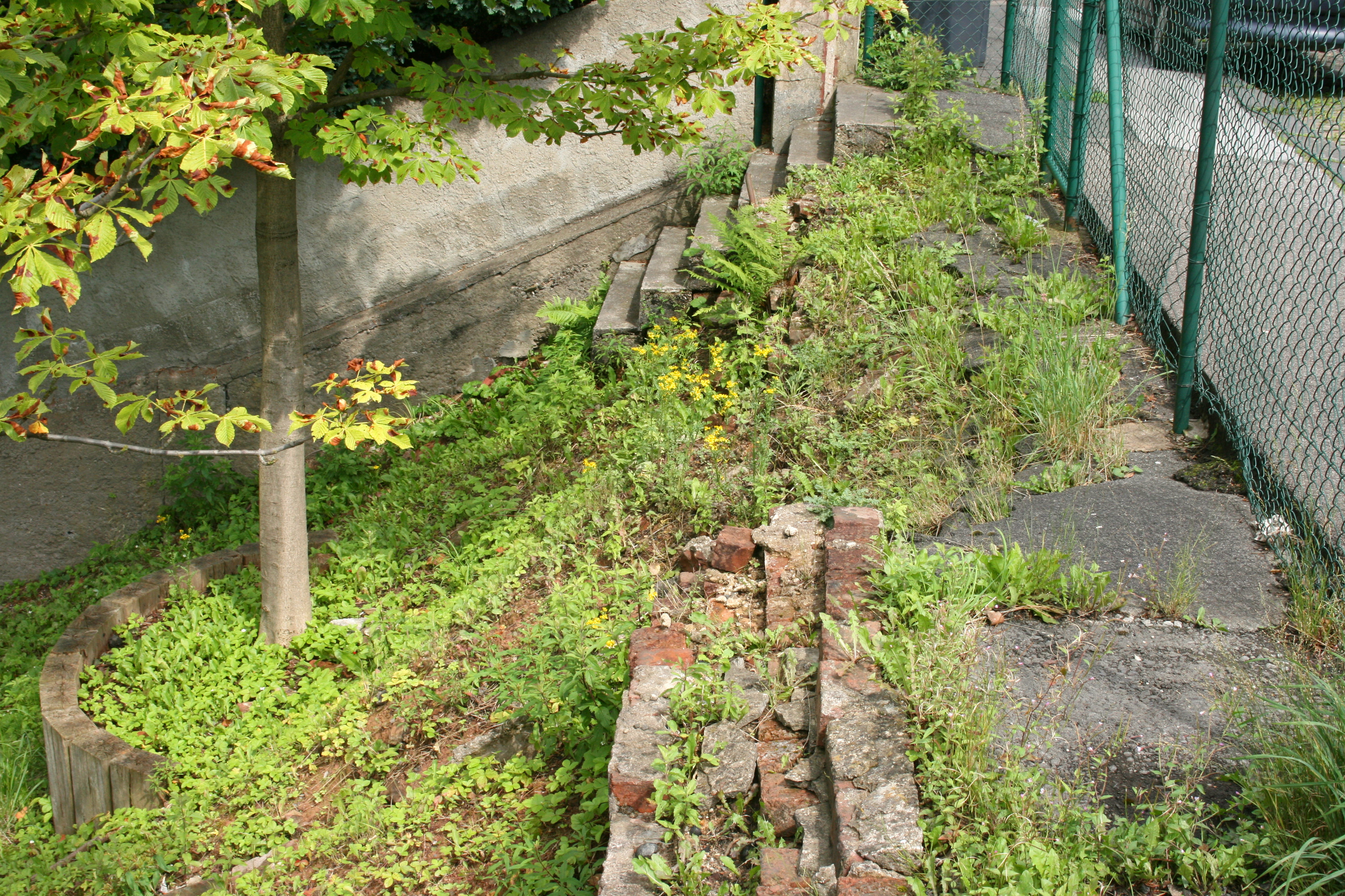 Location of the Solingen arson attack of 1993